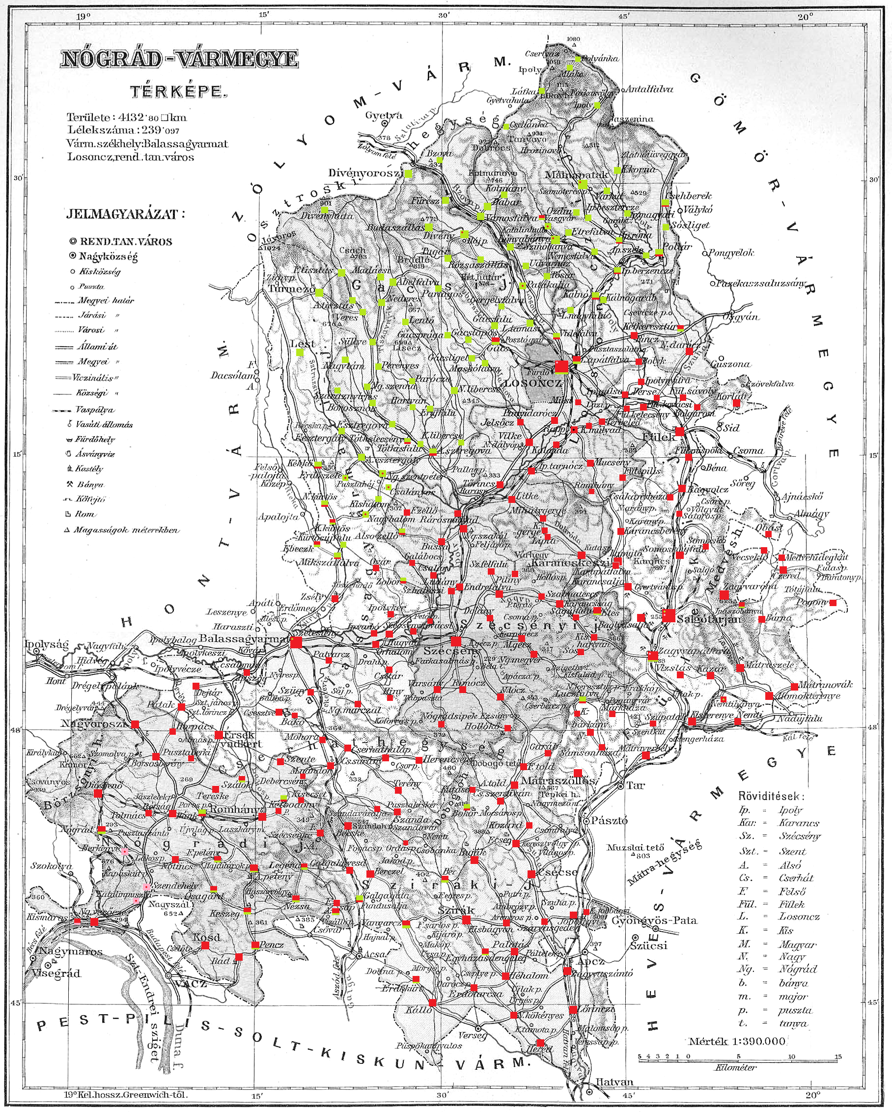 Ethnic map of the county (with data of the 1910 census). Key: red - Hungarians; light green - Slovaks; pink - Germans; black - Roma. Coloured dots in plain rectangles imply the presence of smaller minority populations (generally more than 100 people or 10%). Multicoloured rectangles imply cities and villages with multi-ethnic populations with the order of the stripes following the ethnic composition of the settlement.